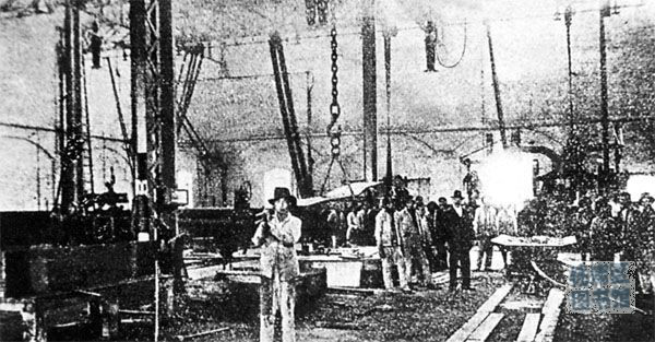 Wusong Locomotive Factory in 1900s-1930s. The factory was moved to Changzhou and renamed Qishuyan Locomotive Factory in1937. 中文（中国大陆）: 1900年代－1930年代（具体不详）的吴淞机械厂，1937年更名为戚墅堰机车厂。